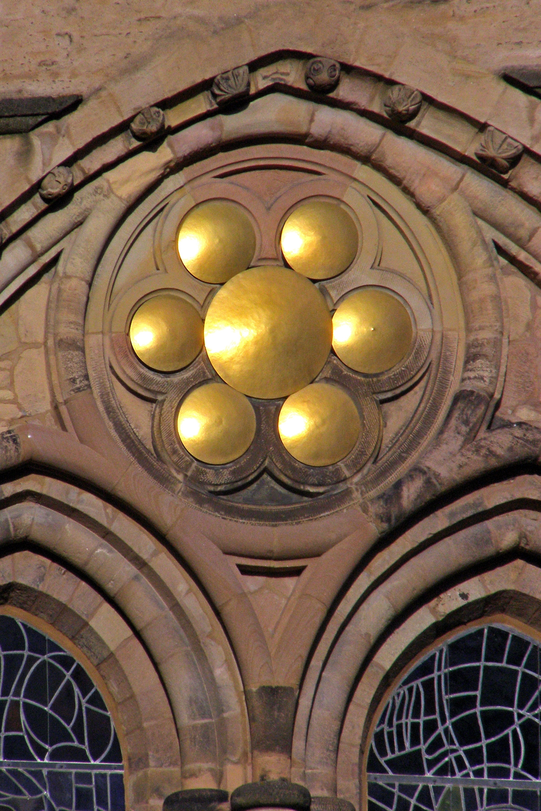 Munster church window in town of Herford, District of Herford, North Rhine-Westphalia, Germany.